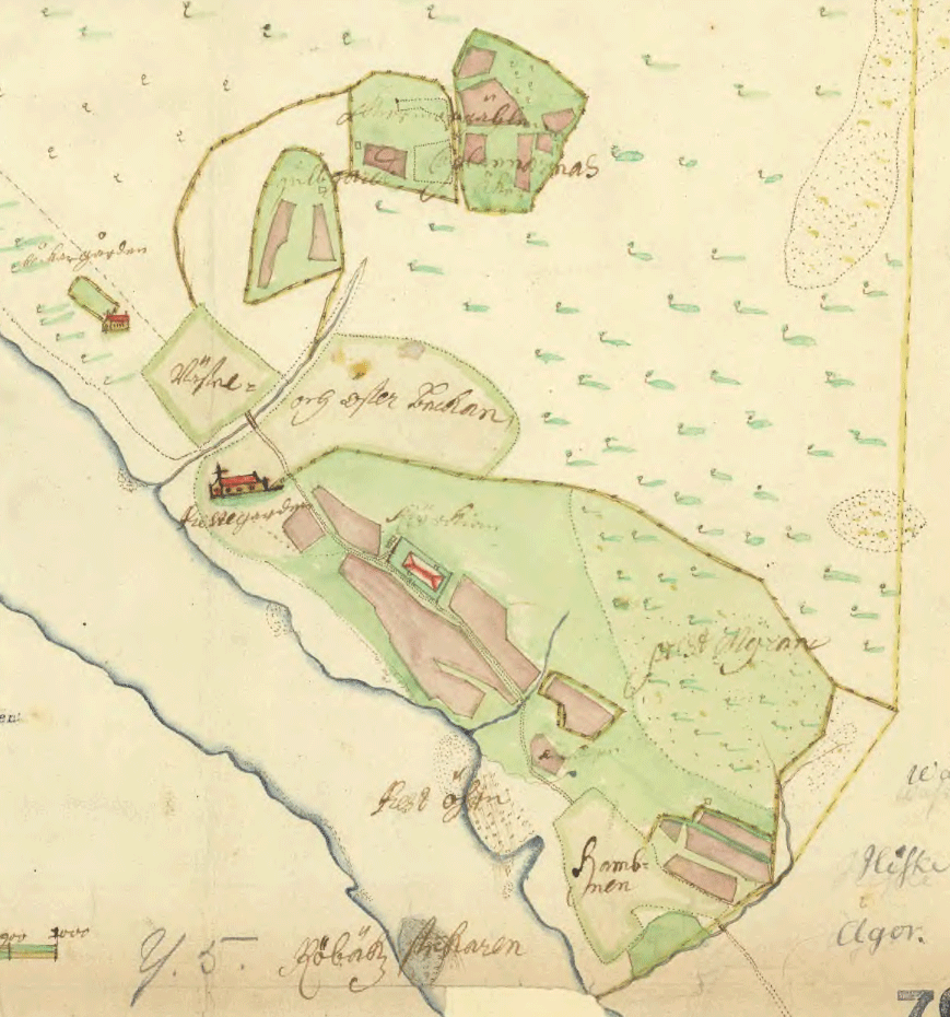 Part of map of the church estate of Umeå parish in 1686. The map was probably drawn by Jonas Persson Gedda. The map shows Backen's church on the north side of river Umeälven. To the west of the church is the rectory. Near the river is Prästön and the harbour.